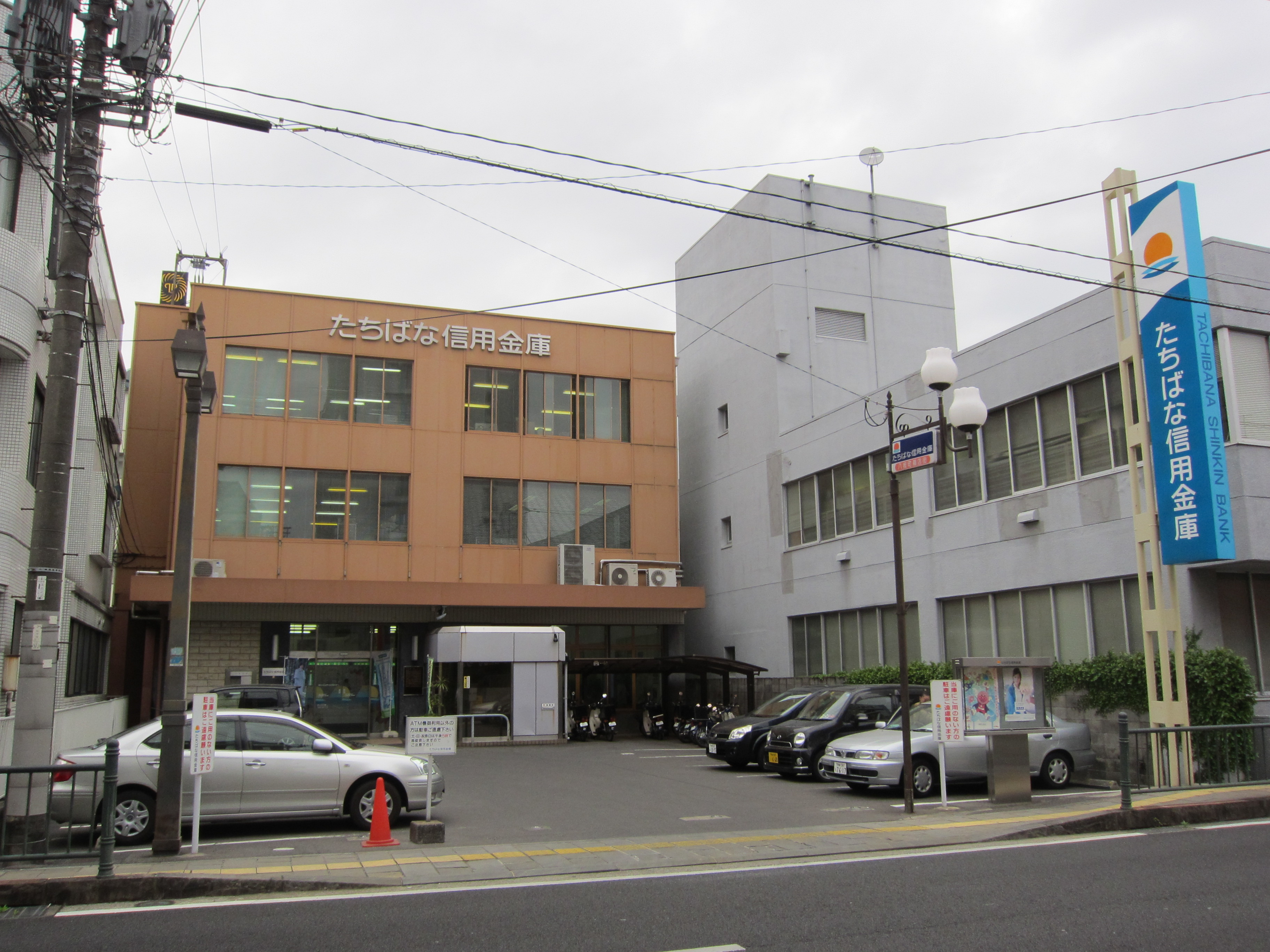 Tachibana Shinkin Bank